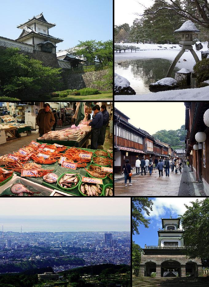 From top left: Kanazawa Castle Ishikawa-mon, Kenroku-en, Omicho Market, Higashiyama-higashi, Central Kanazawa from Mr.Kigo, Oyama Shrine.